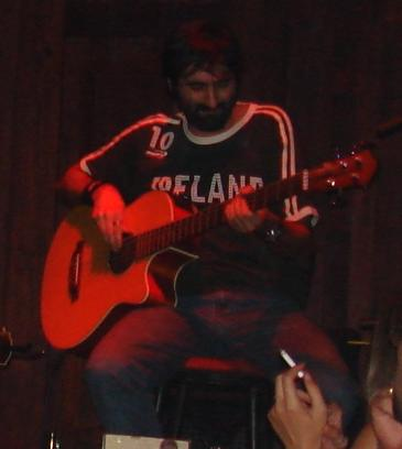 Abel playing with Gandhi in Jazz Café, Costa Rica.